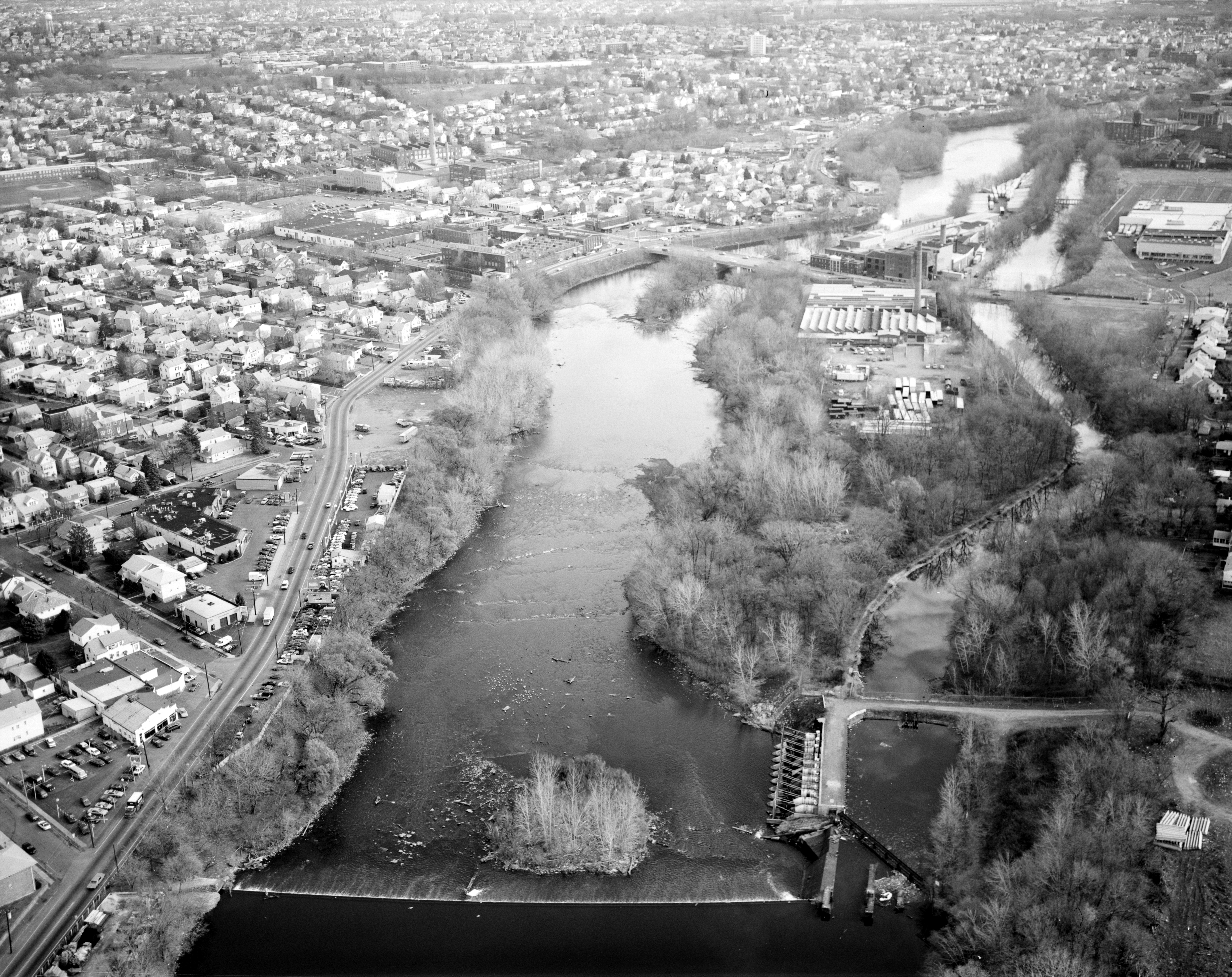 View of Dundee Canal, Clifton and Passaic, New Jersey on the right, with Passaic River in the center. Looking southeast. The Dundee Dam, with headgate (or sluice) for the canal, is in the foreground. The City of Passaic is on the right bank of the river, and Garfield is on the left bank. The former Dundee Textile Mill is seen between the river and canal. The canal was built 1858-1861 for hydropower and to supply water for manufacturing. The canal is part of the Dundee Canal Industrial Historic District. Cropped photo.